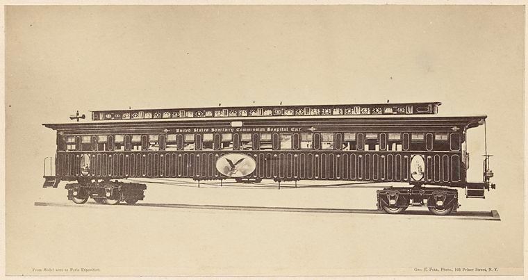 View of US Sanitary Commission hospital car for the transportation of sick and wounded soldiers